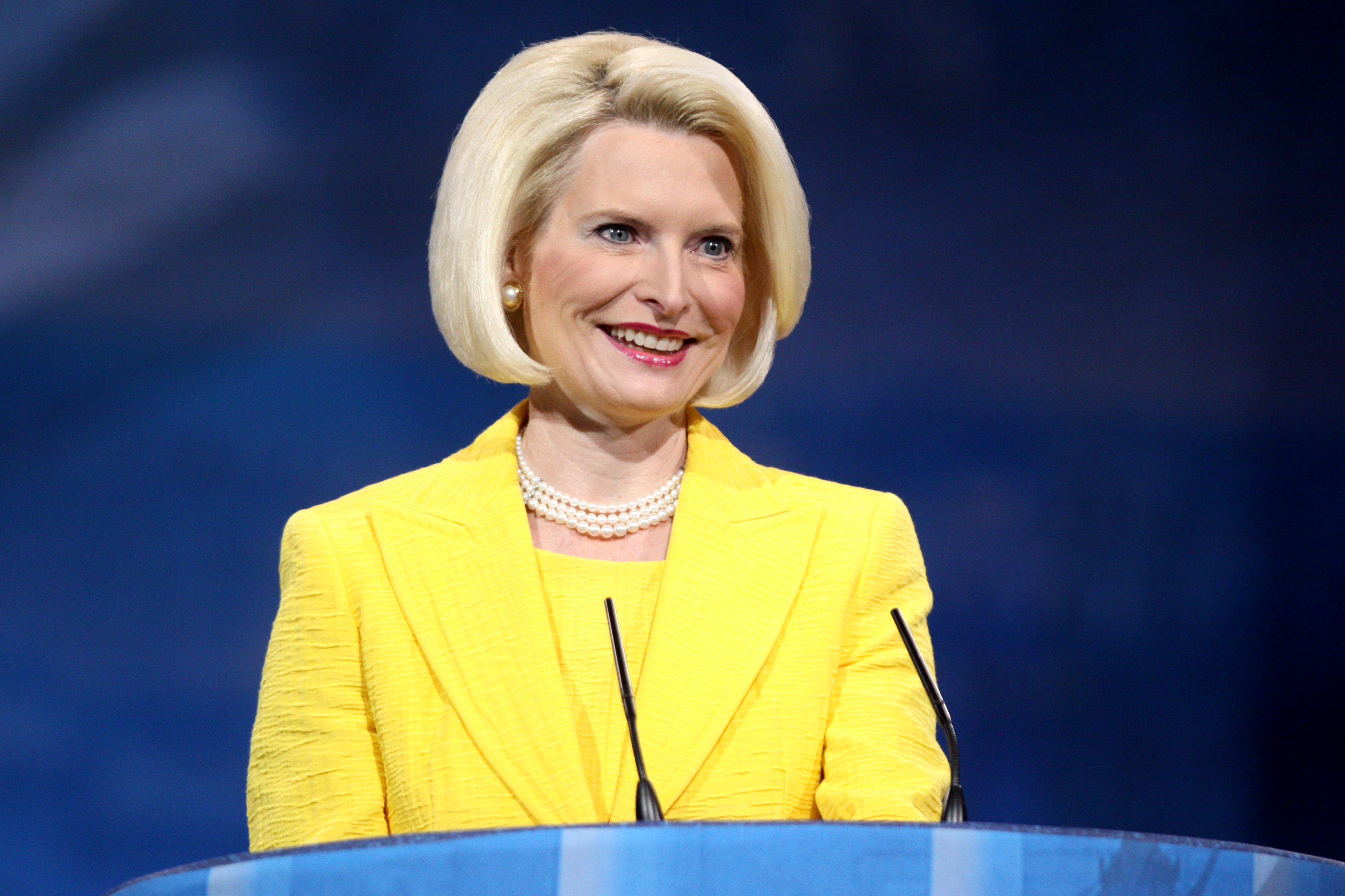 Callista Gingrich speaking at an event in National Harbor, Maryland